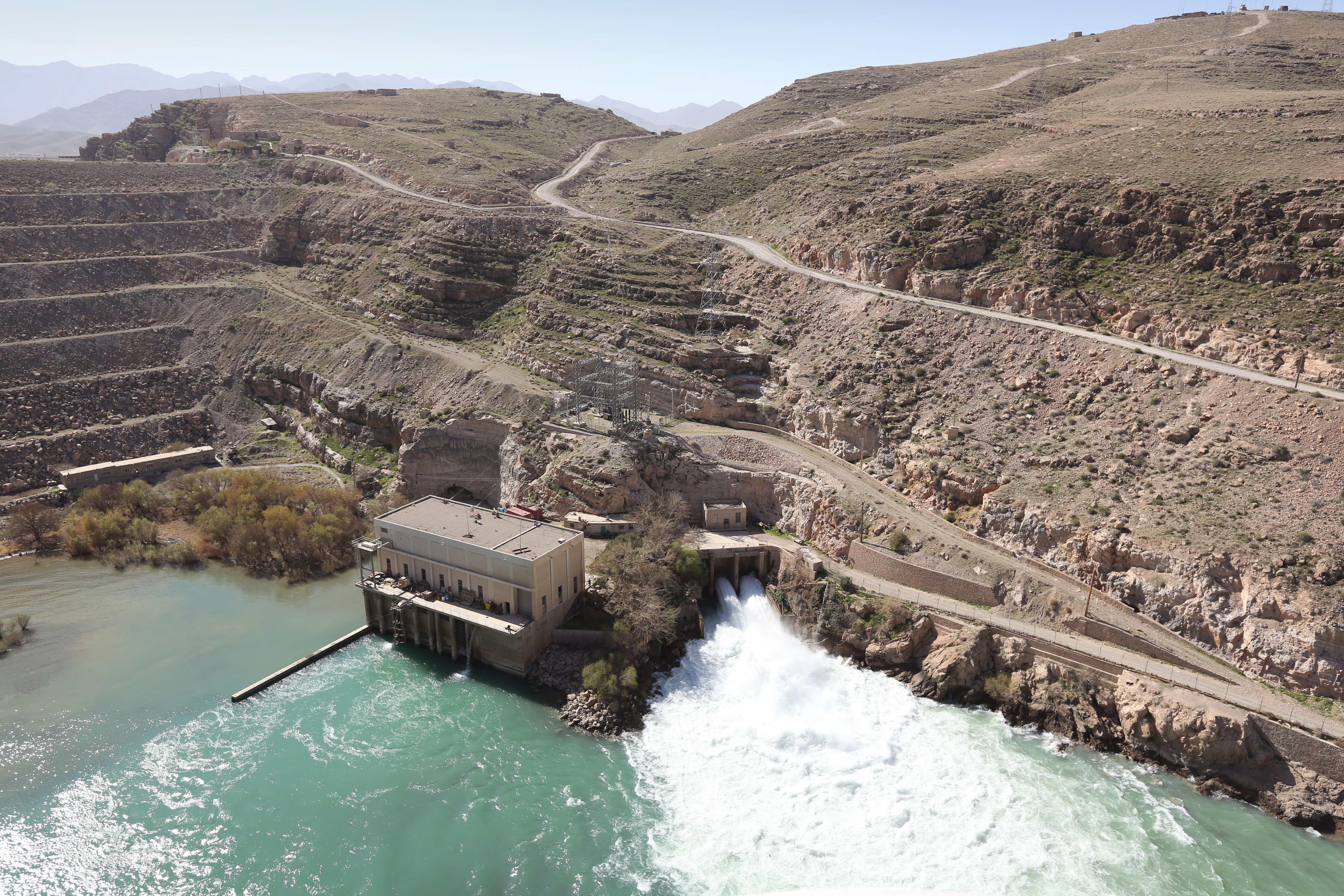 Kajaki Dam on the Heland River on 2013-03-09. Original caption: “Kandahar Helmand Power Project The Kajaki dam in Helmand Province, Afghanistan, on Saturday, March 9, 2013. U.S. officials traveled to the dam to get an overview of the implementation of Unit 2 from "off-budget" to "on-budget." USAID will complete all other components of the Kandahar Helmand Power Project, including work on the substations in Kandahar and Durai Junction. (Photo by Musadeq Sadeq/U.S. State Department)”